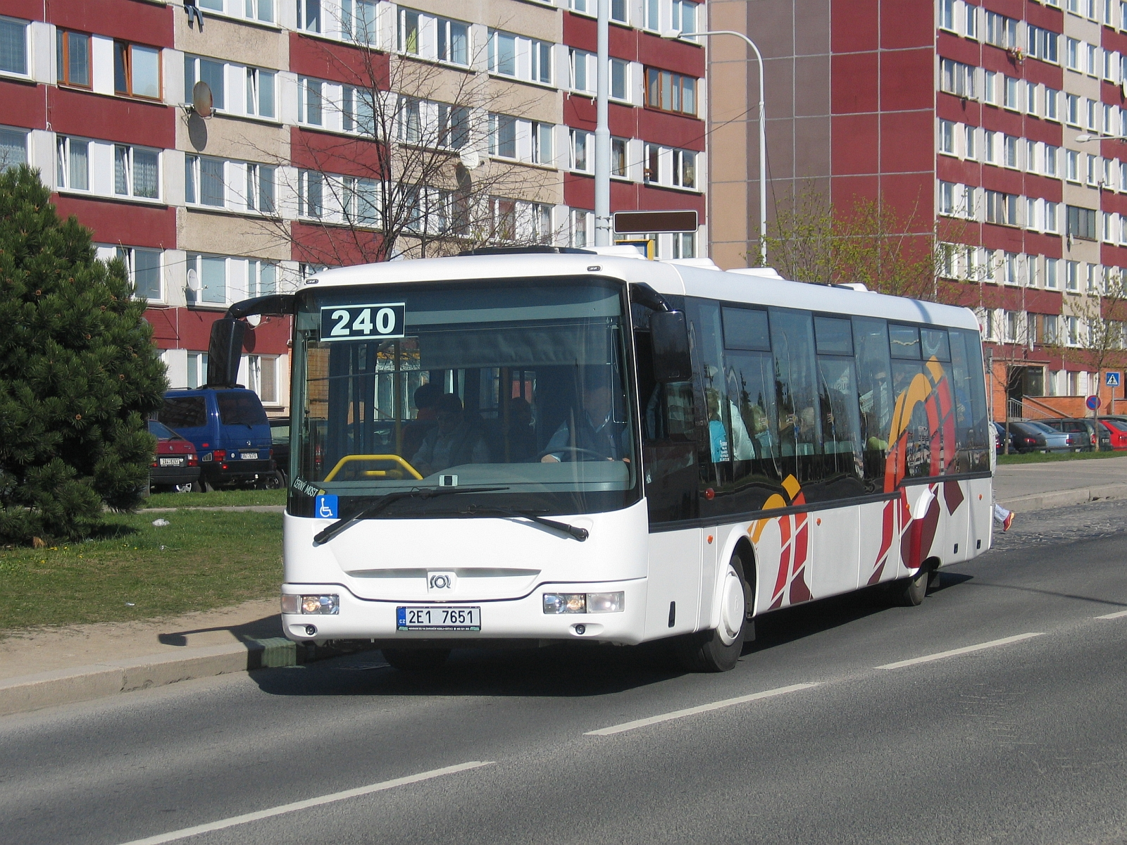 SOR NB 12, Praha, Horní Měcholupy, Milánská ulice